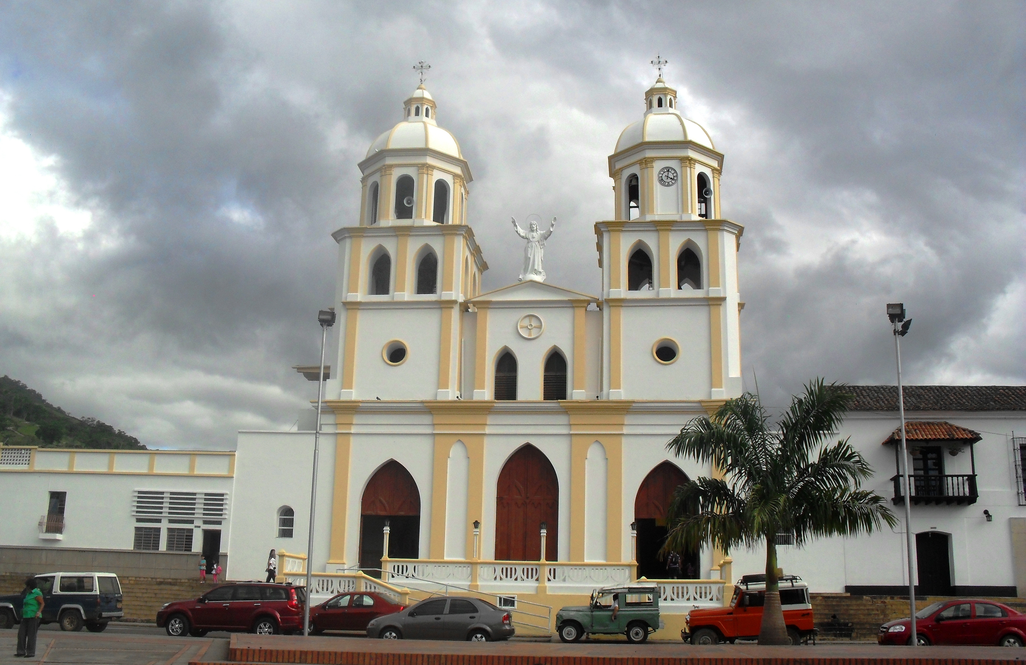 Church San Juan Bautista in Chinácota,North Santander,Colombia.